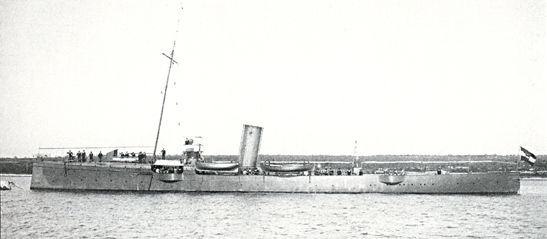 Austro-Hungarian gunboat (SMS Satellit) - copyright expired